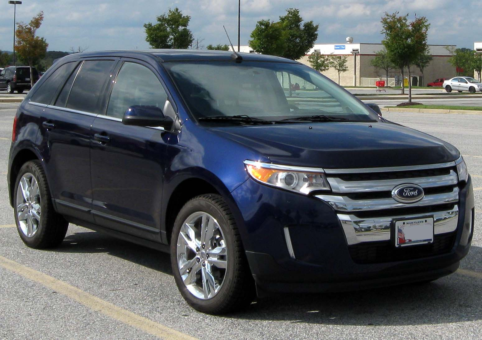 2011 Ford Edge photographed in Laurel, Maryland, USA.